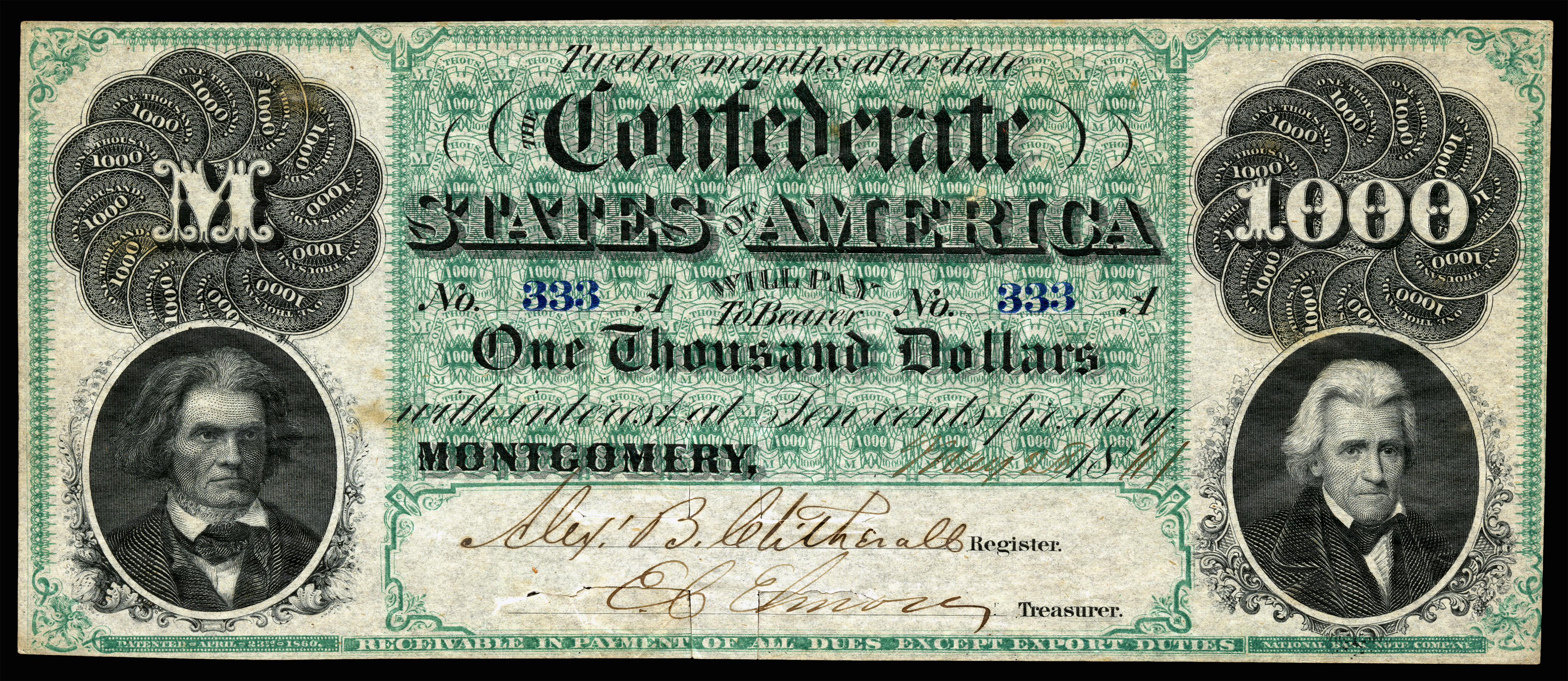 First series $1,000 Confederate States of America banknote. Uniface. Portraits of John C. Calhoun and Andrew Jackson. First series (Act of March 9, 1861 amended August 3, 1861), interest bearing at 3.65%, total authorized circulation $1,000,000. Between 1861–64 there were 72 different types issued with numerous varieties.